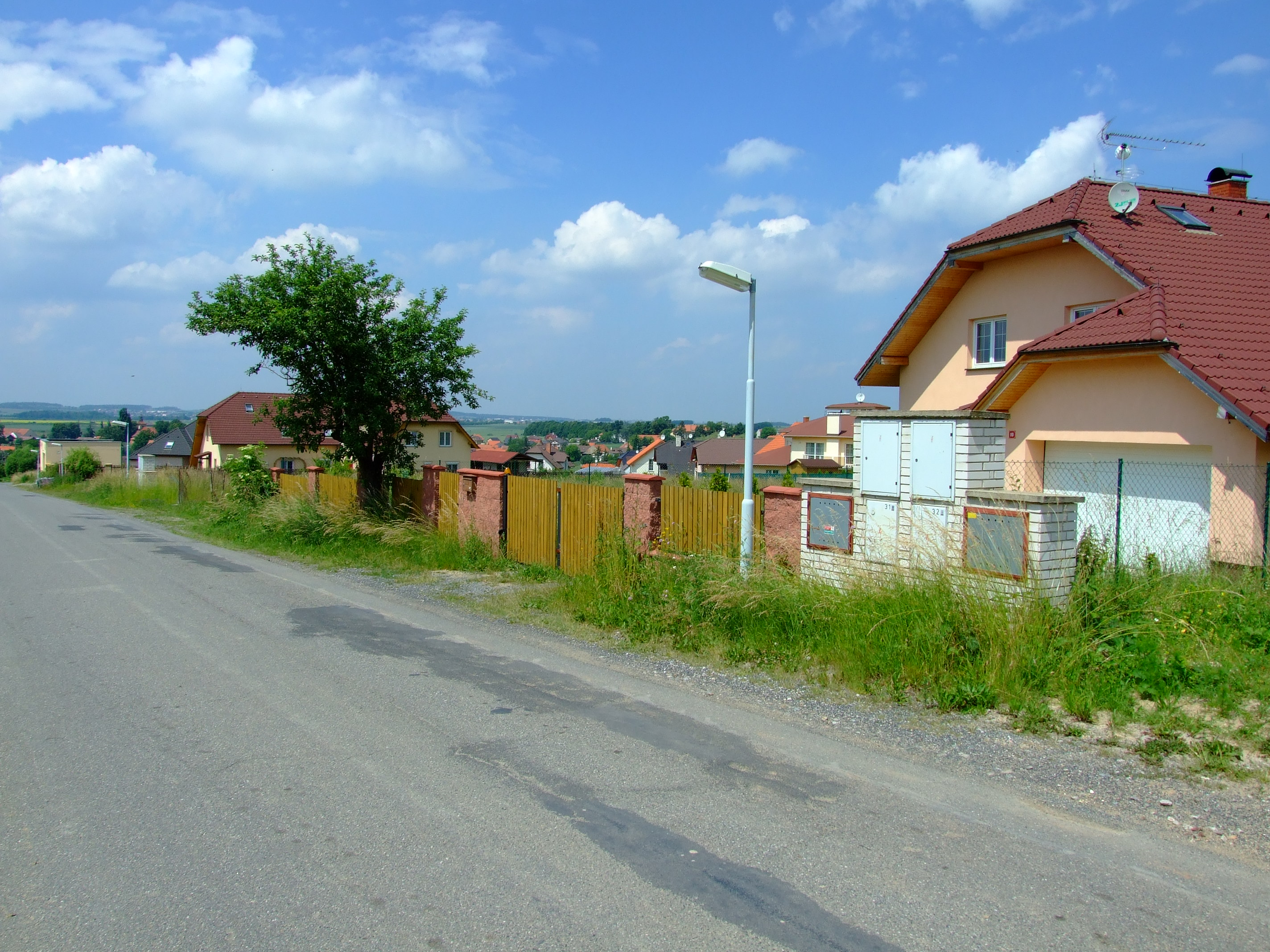 Svárov village in Central Bohemian region near Prague, CZhelp